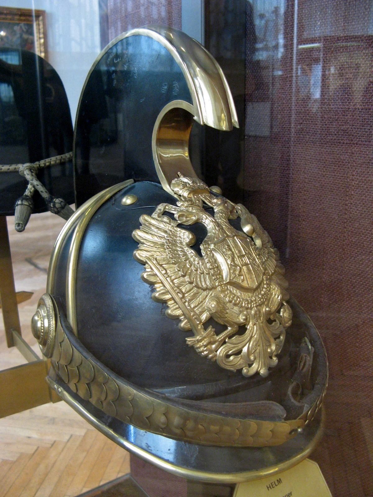 Helmet of an austro-hungarian imperial and royal dragoon